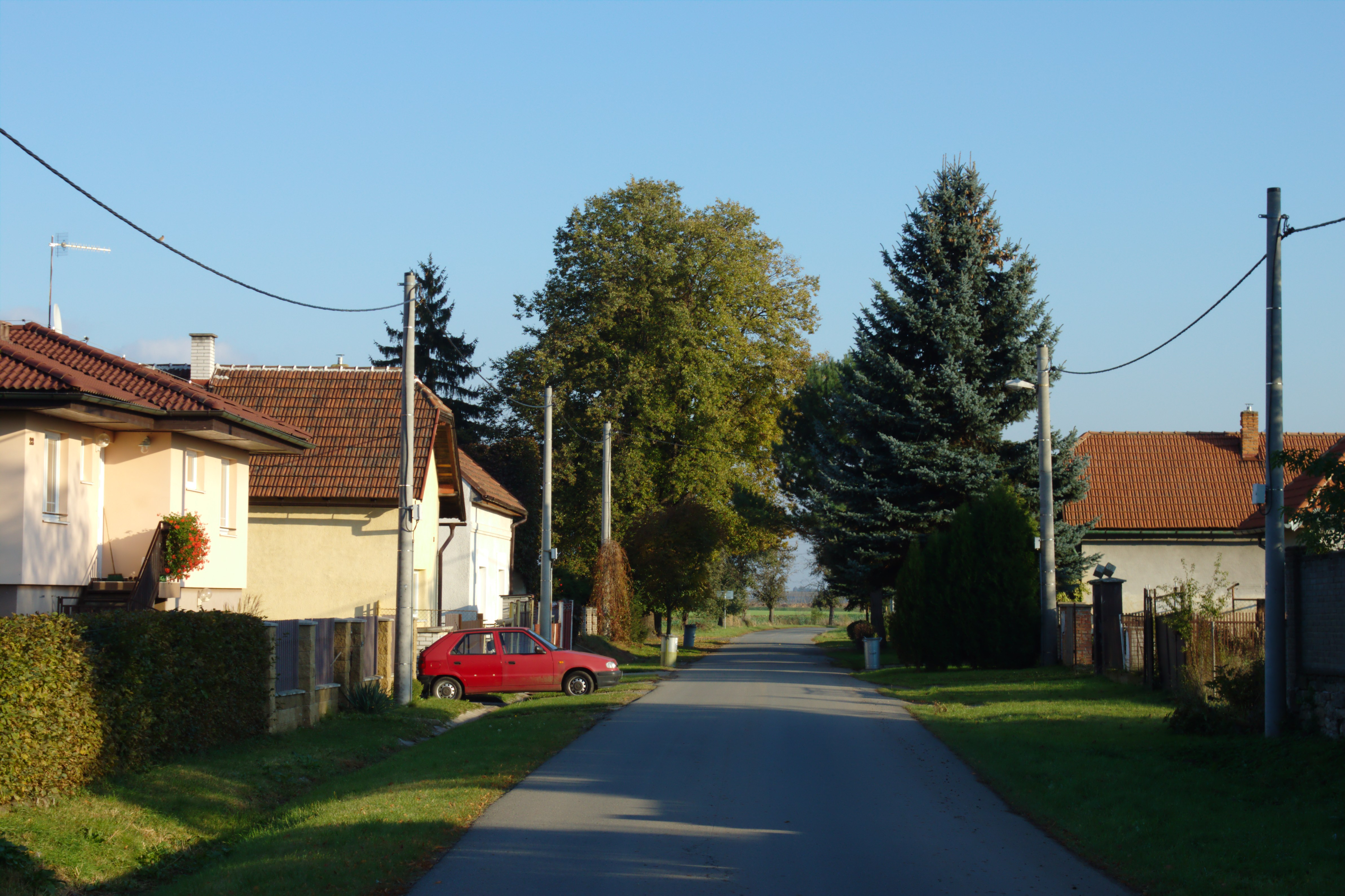 Main road in Dědibaby